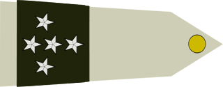 Army General